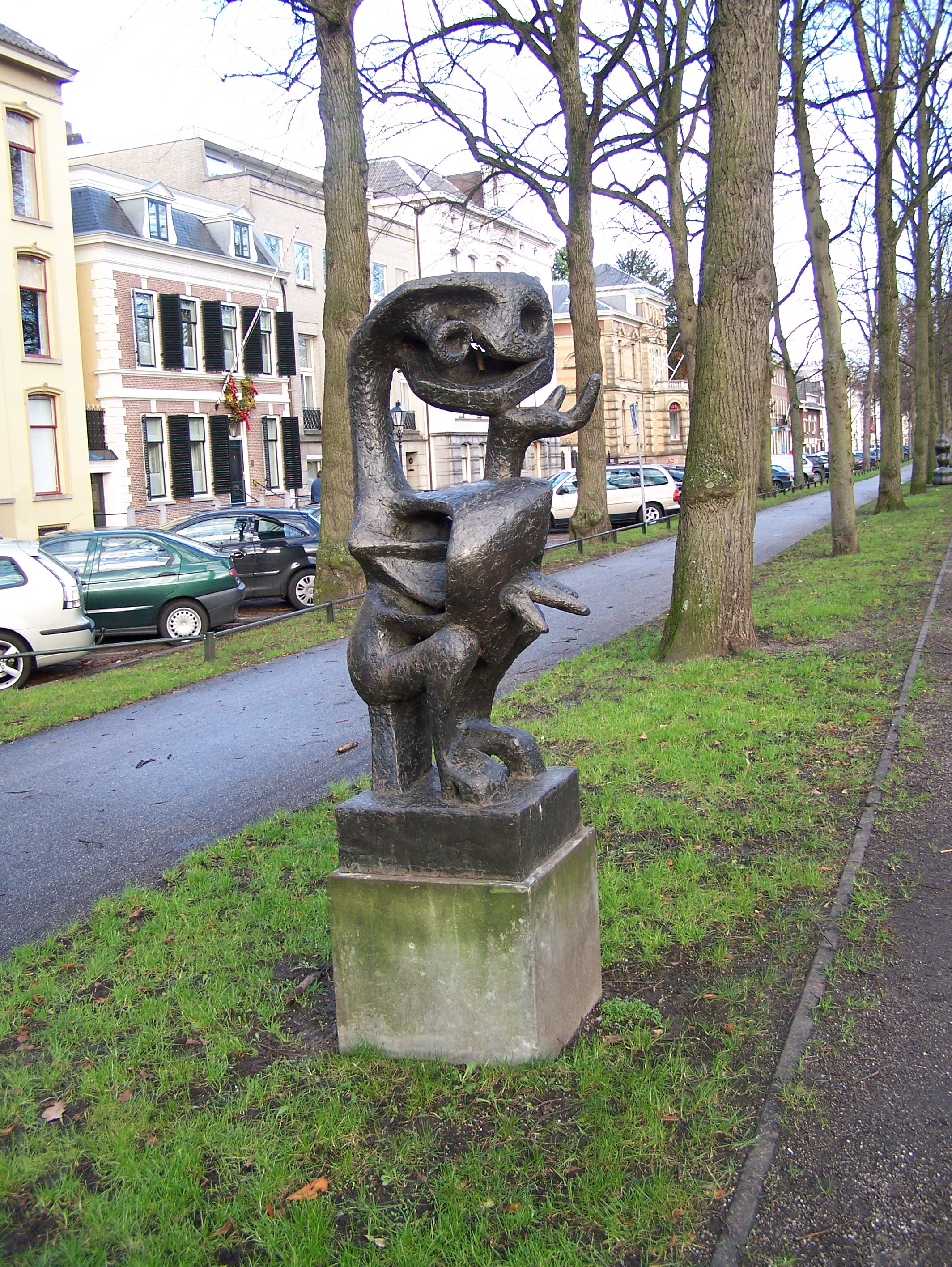 Statue "denker" (thinker), made by Lotti van der Gaag in 1951. Placed at the Maliebaan in 1991